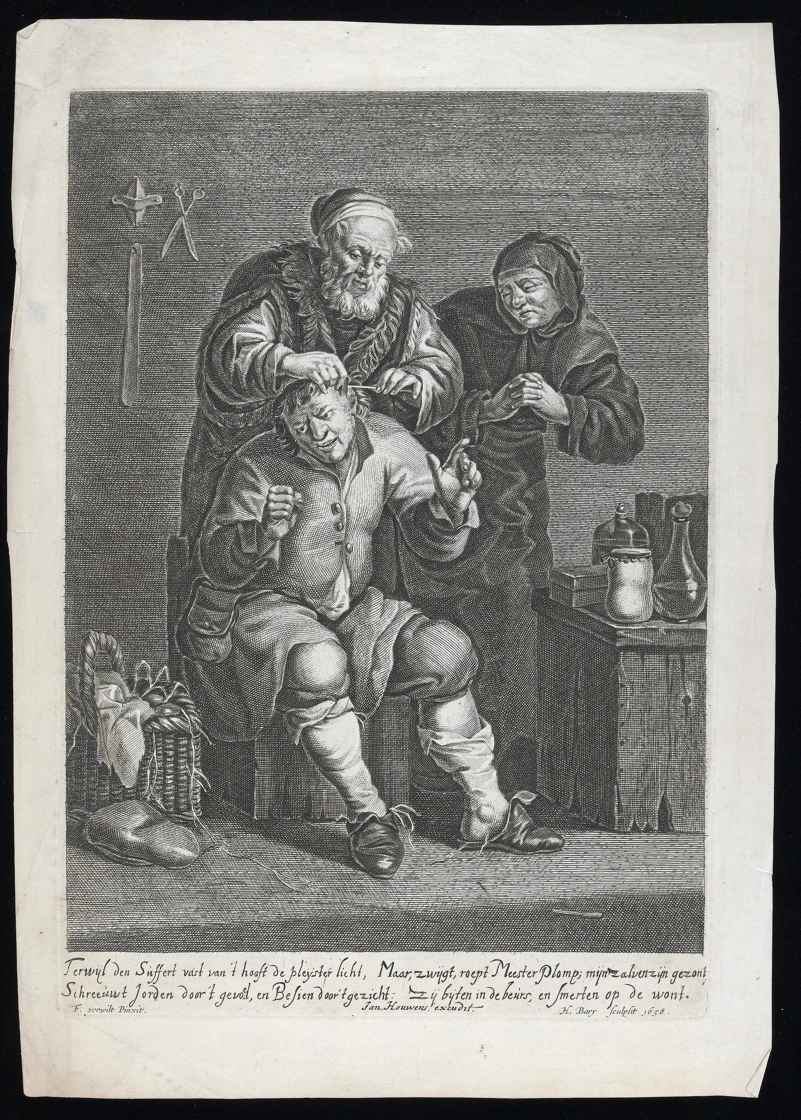 A surgeon operating on a man's head. Iconographic Collections Keywords: Patient; Patients; Hendrik Bary; François Verwilt; Operation; Surgery